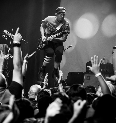 Boris Pelekh playing with Gogol Bordello in Las Vegas, November 2016. Photo: Alison Clarke/Cliqmo Photography